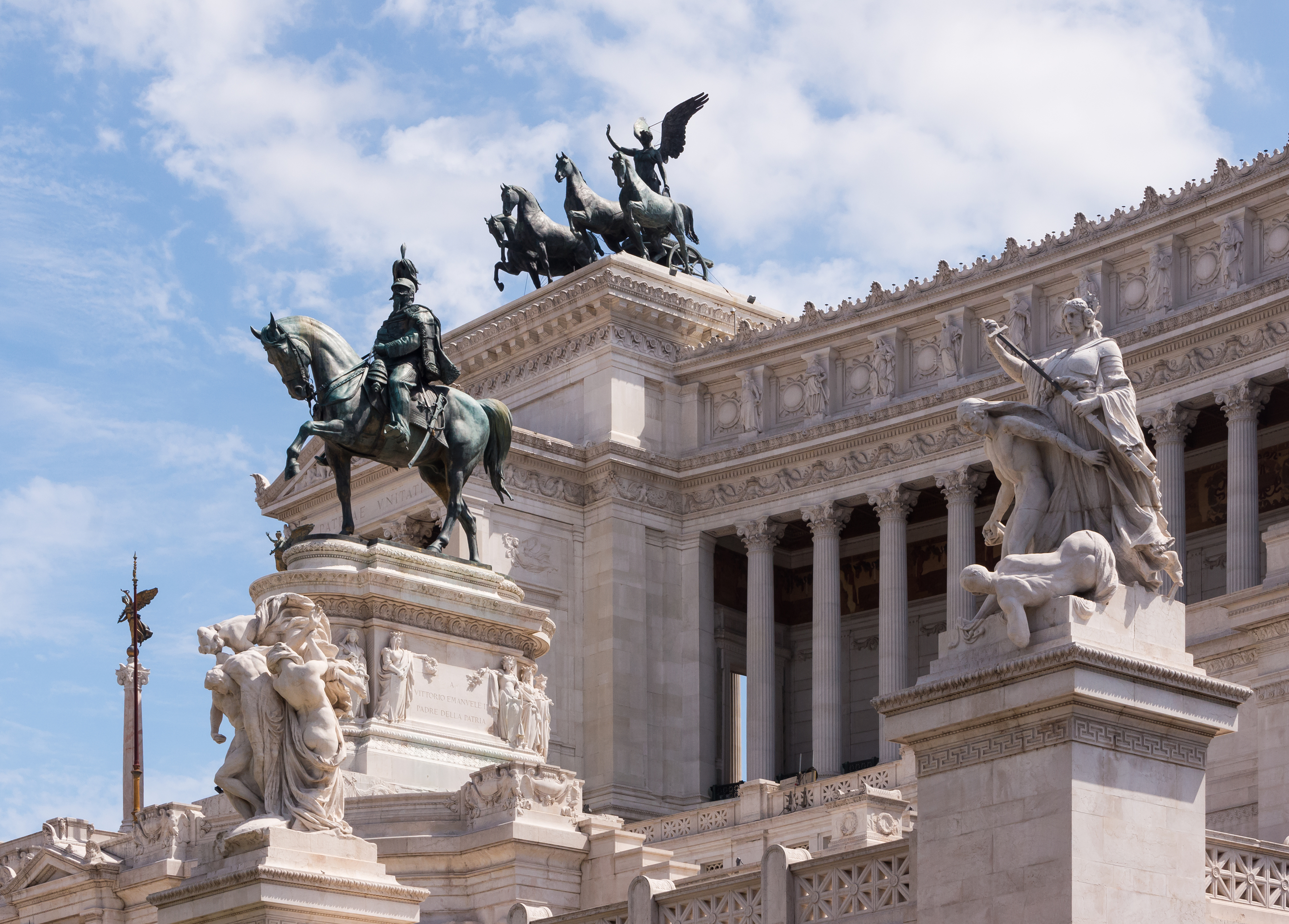 Detail of the "Vittoriano", Rome, Italy.